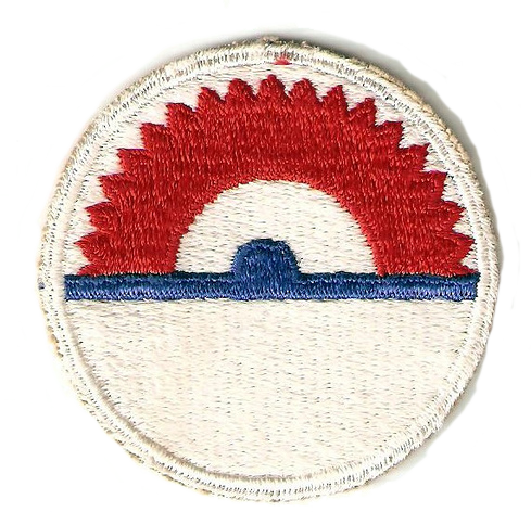 Emblem of the World War II Newfoundland Base Command